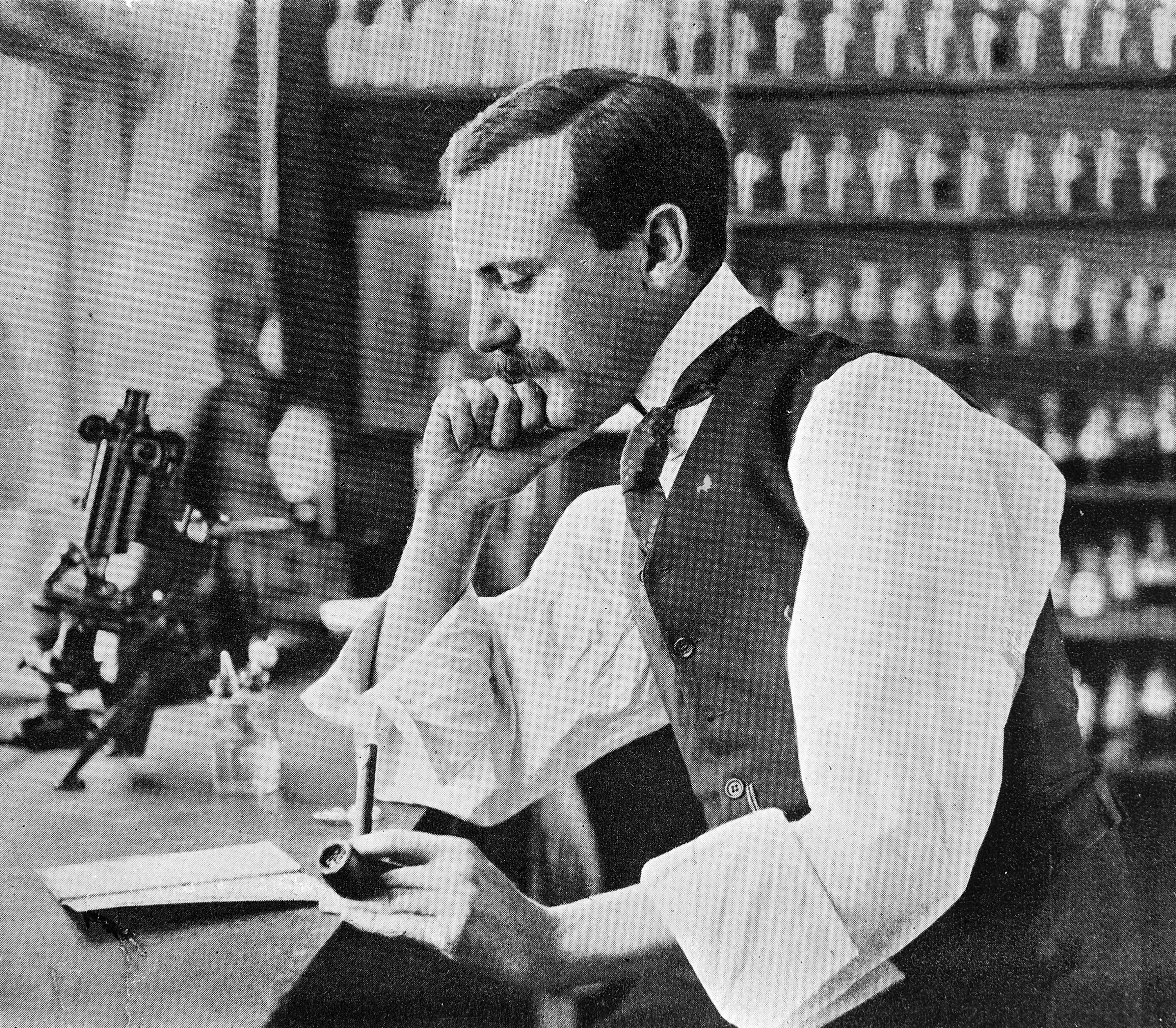 Portrait of Walter Myers. Wellcome Images Keywords: Walter Myers